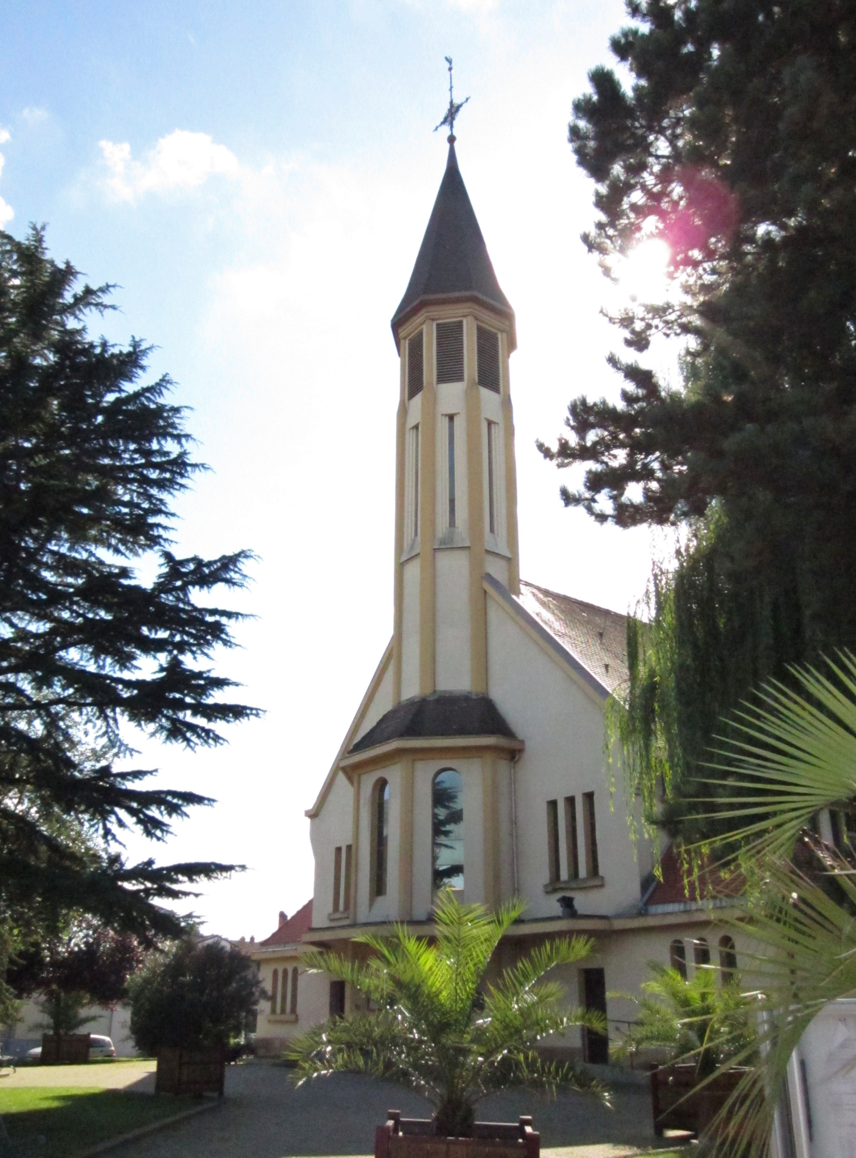 Description Église Saint-Joseph Amneville Date31 August 2011Sourcemon appareil photoAuthorAimelaimePermission (Reusing this file) Église Saint-Joseph Amneville